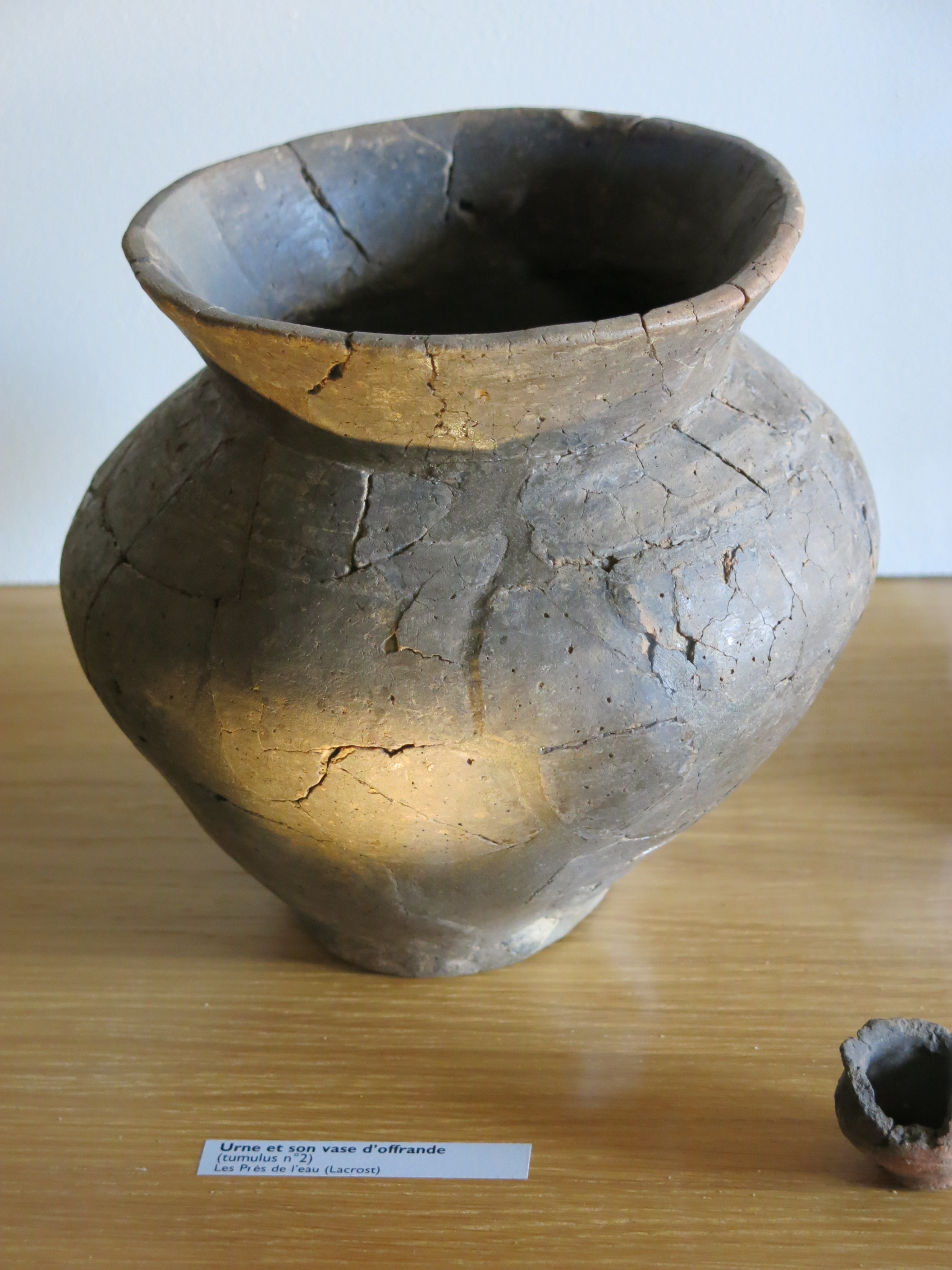 Urn in the collections of the Hôtel-Dieu in Tournus (Saône-et-Loire, France). From tumuli in Lacrost.